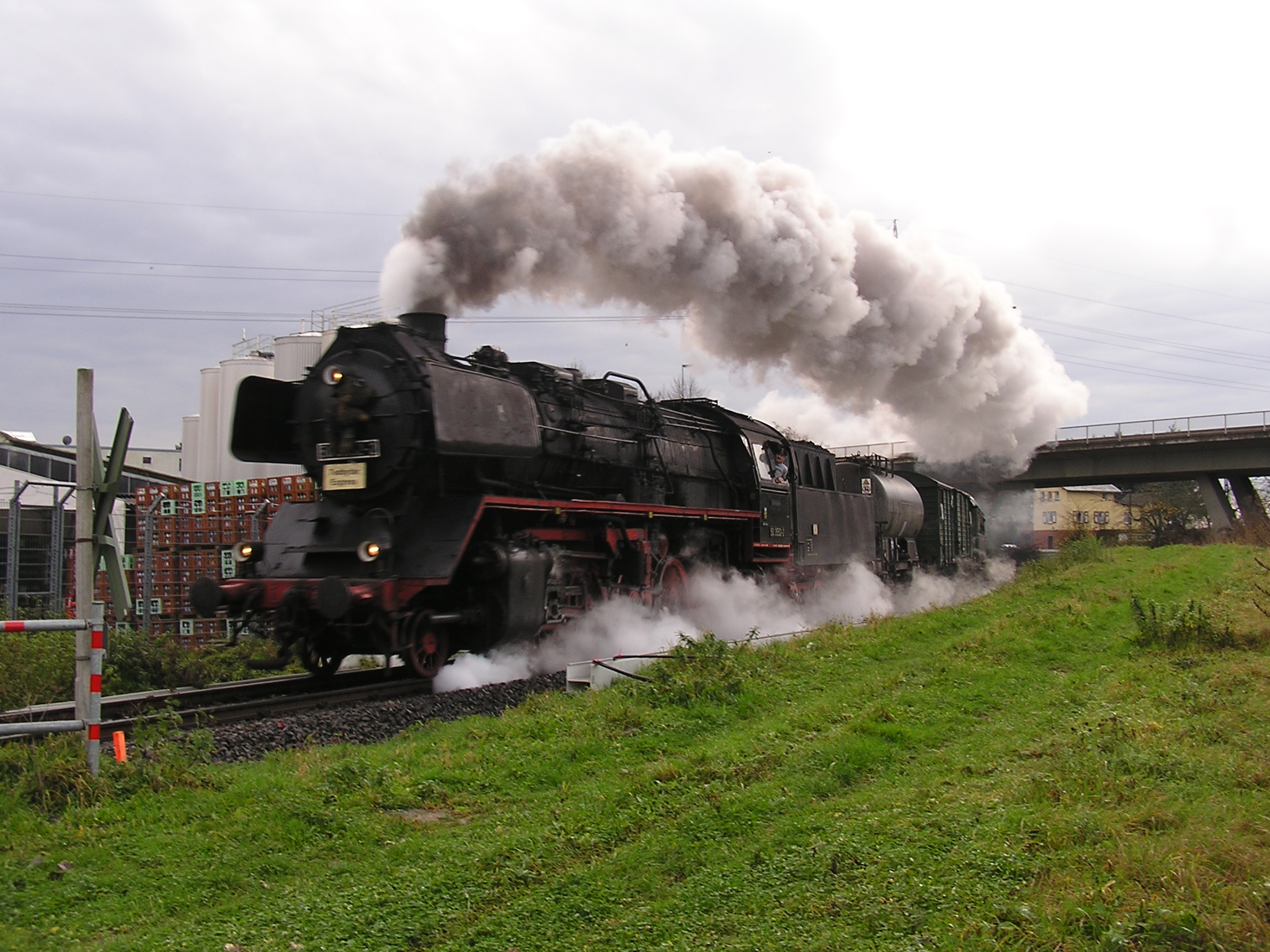 50 3552-2 of the association Museumseisenbahn Hanau e. V. as “Teddy-Express” on the Niddertalbahn leaving Bad Vilbel